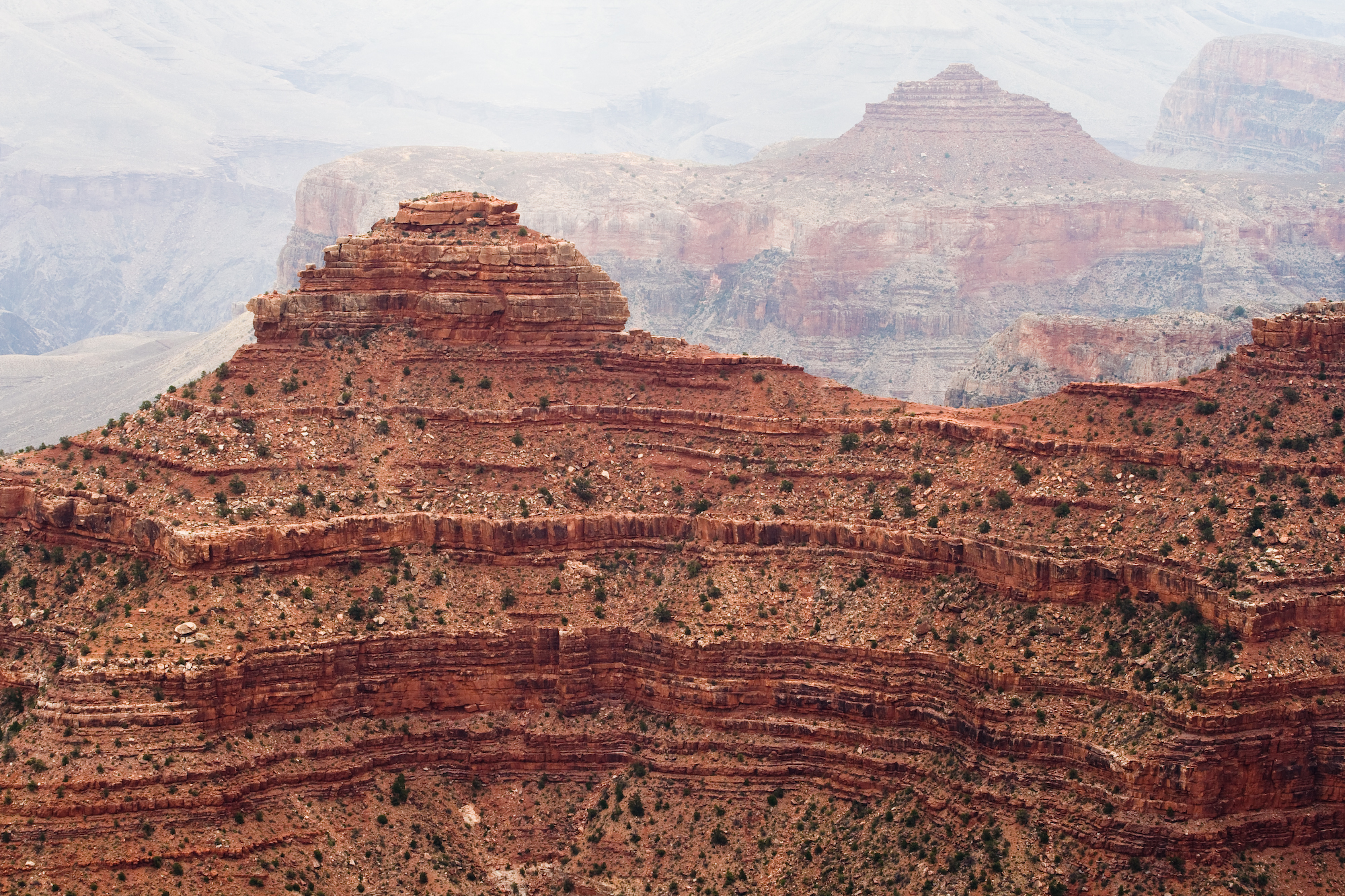 Butte beyond, is smaller Pattie Butte, on an extension north on Newton Butte. Grand Canyon, Arizona. Geologically it is significant because of the thick sequence of ancient rocks that are beautifully preserved and exposed in the walls of the canyon. These rock layers record much of the early geologic history of the North American continent. Grand Canyon is also one of the most spectacular examples of natural erosion in the world. Arizona, USA.